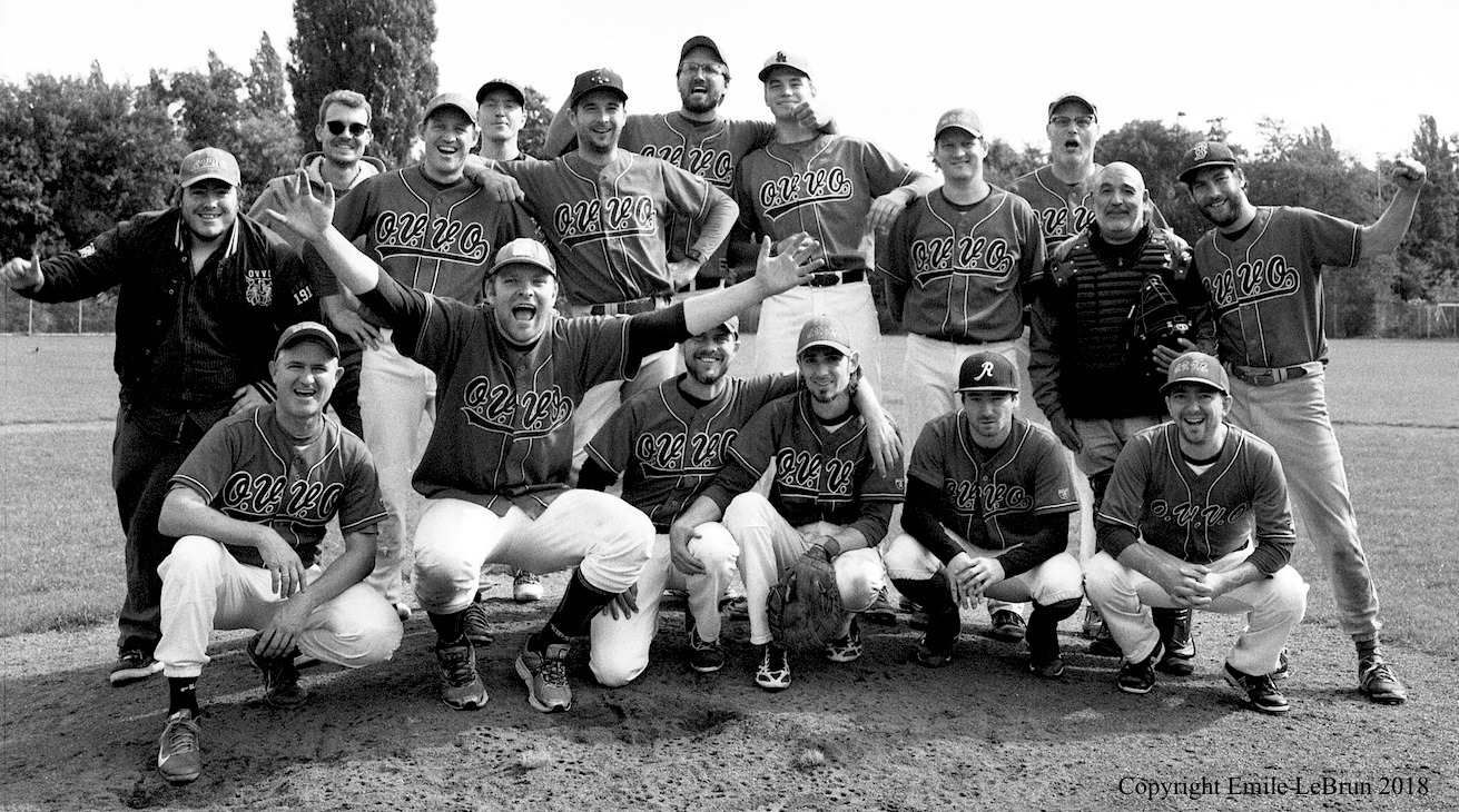 OVVO Men's 4th Team, September 2018